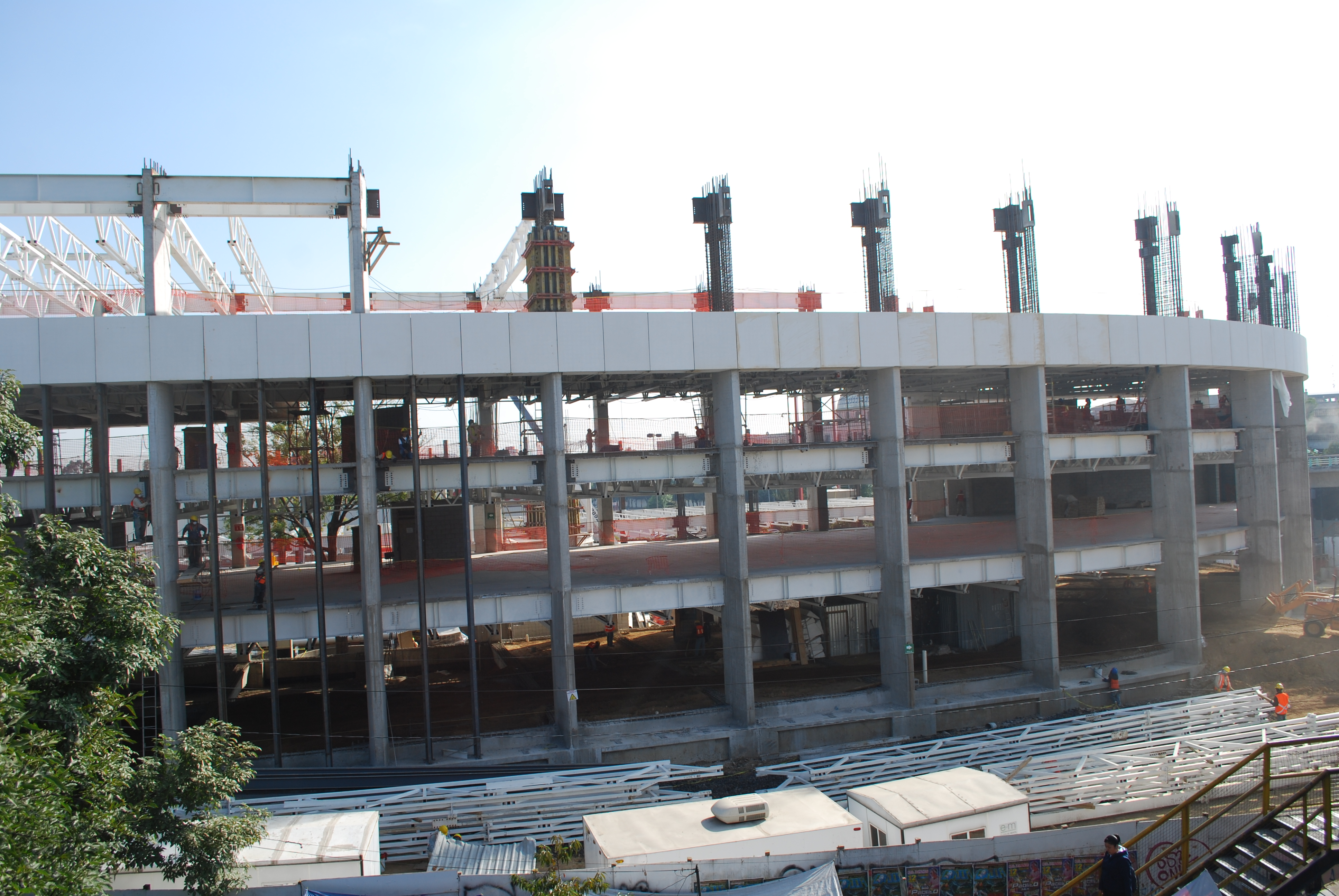 Construction on a new graduate school building at ITESM-CCM in Mexico City